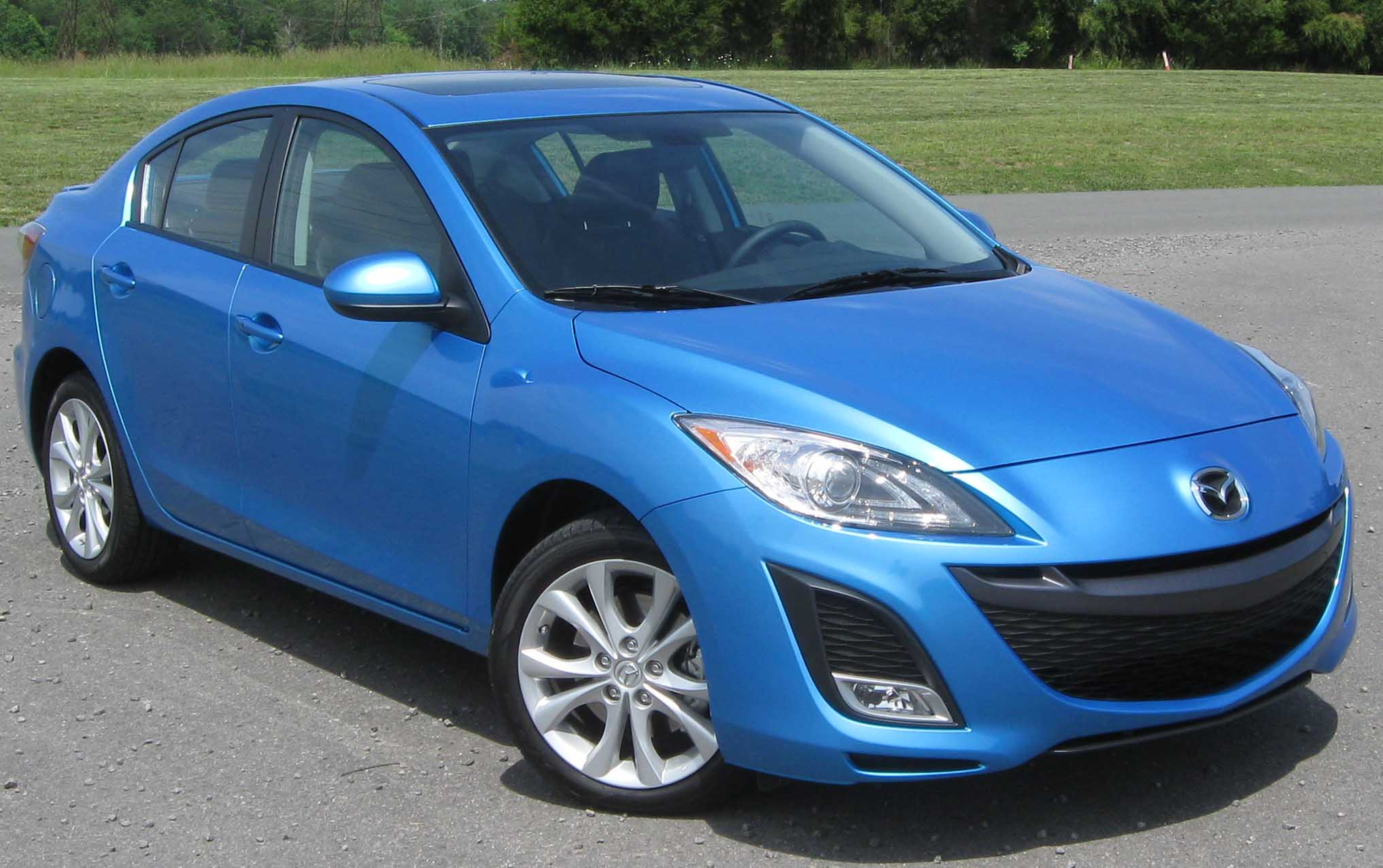 2010 Mazda3 S Grand Touring photographed in Centreville, Virginia, USA.